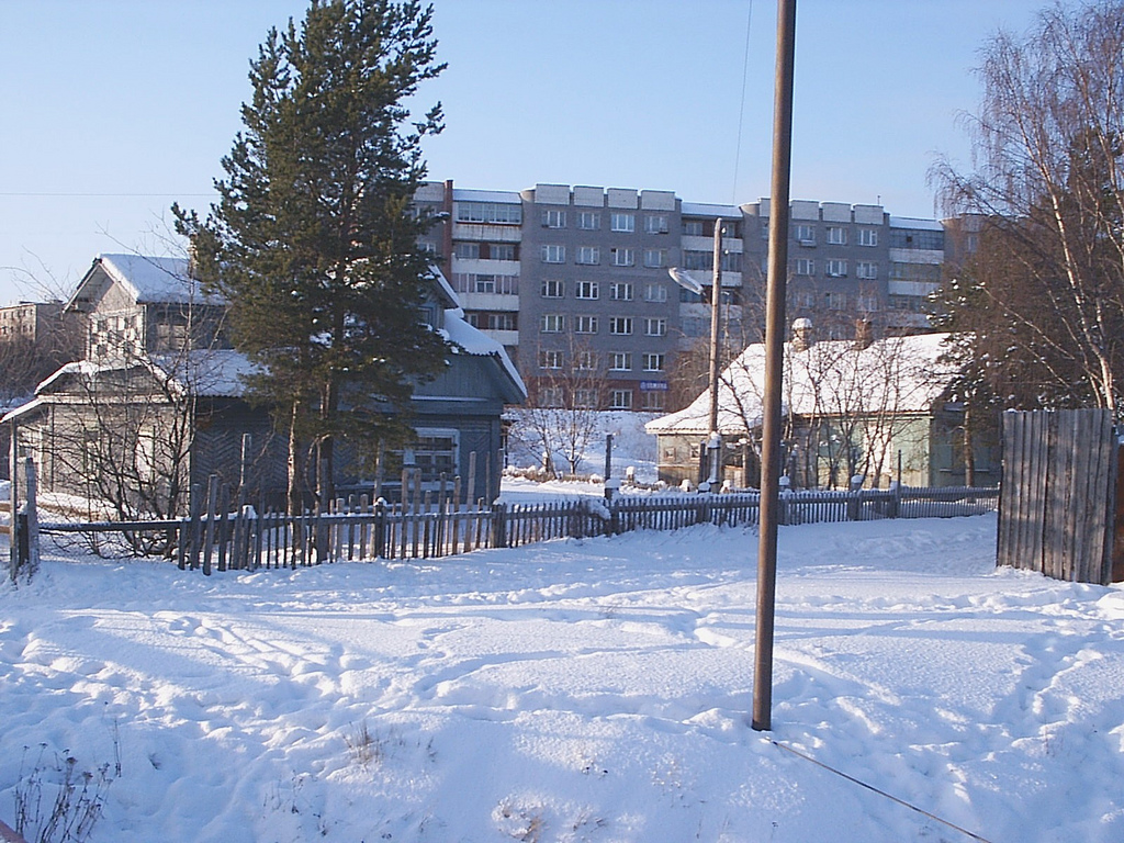 Kandalaksha 2008